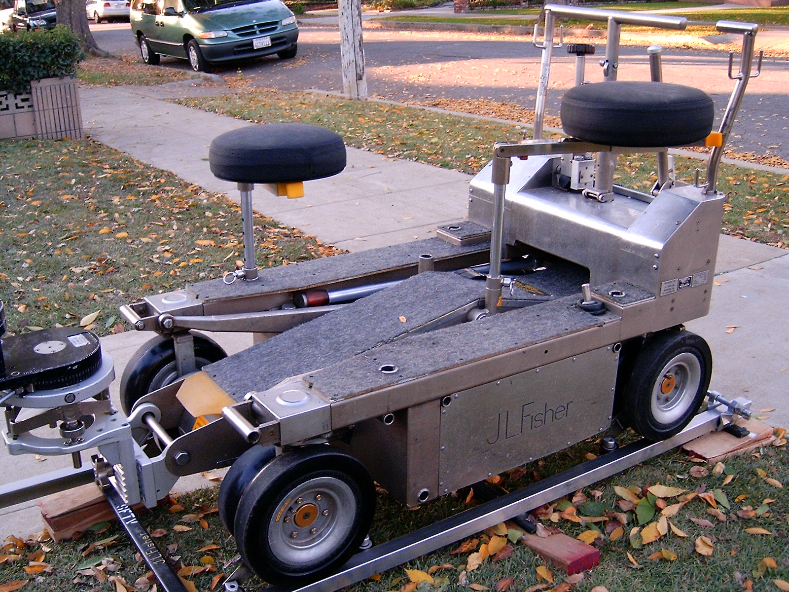 J.L. Fisher "Model 10" camera dolly mounted on track, at medium distance.